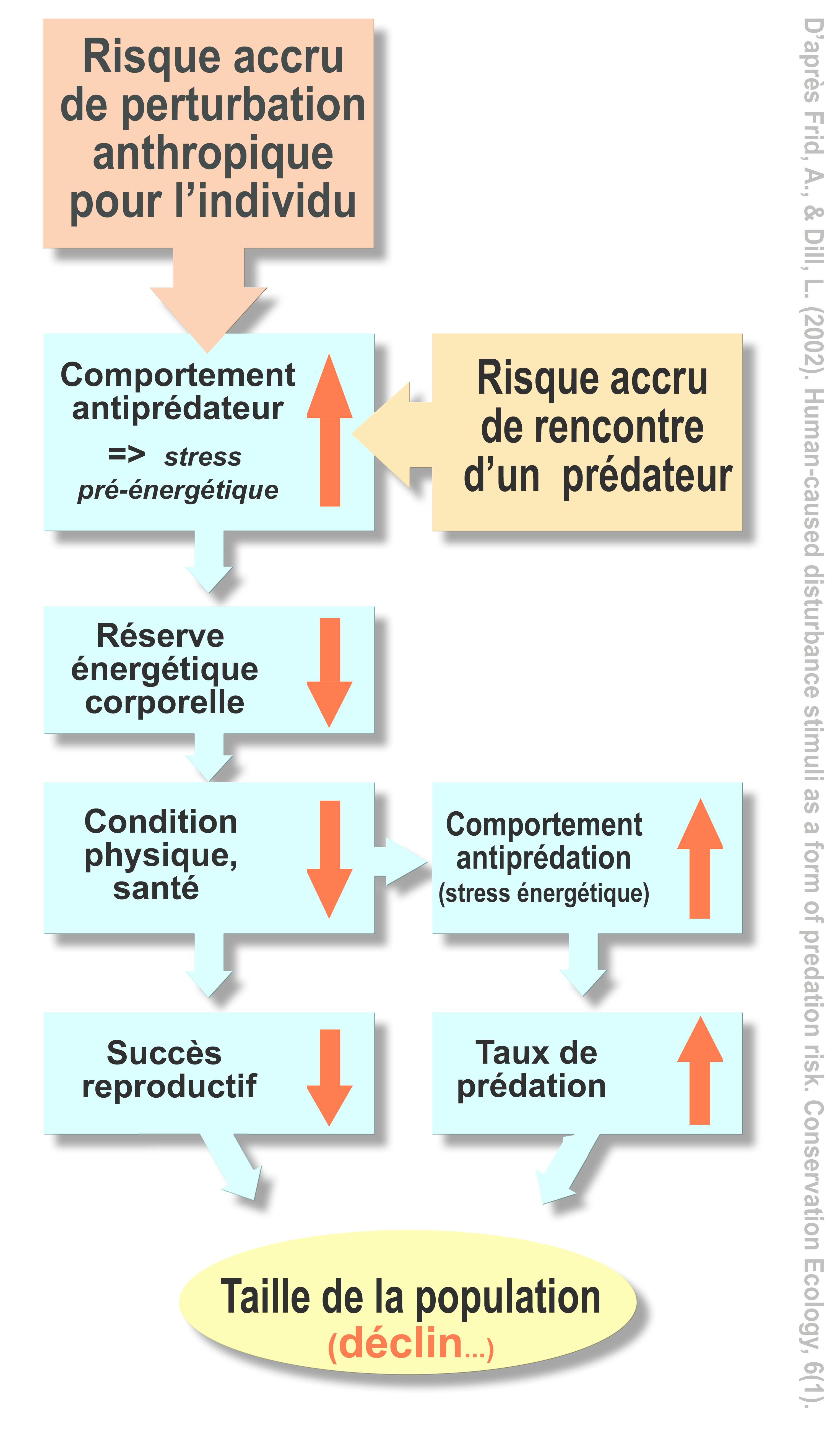 Simplified diagram showing the effects of (anthropogenic) disturbance when this disturbance is added to the stress effects of natural predation. According to Frid & Dill (2002), these two types of effects are quite comparable because both induce "anti-predator" avoidance behaviors and strategies (costly in time and energy), and which can add or increase their impacts. effects by decreasing the average life expectancy of the animals that fall victim to it, to the detriment of their population, which may decline if the disturbance lasts or repeats.